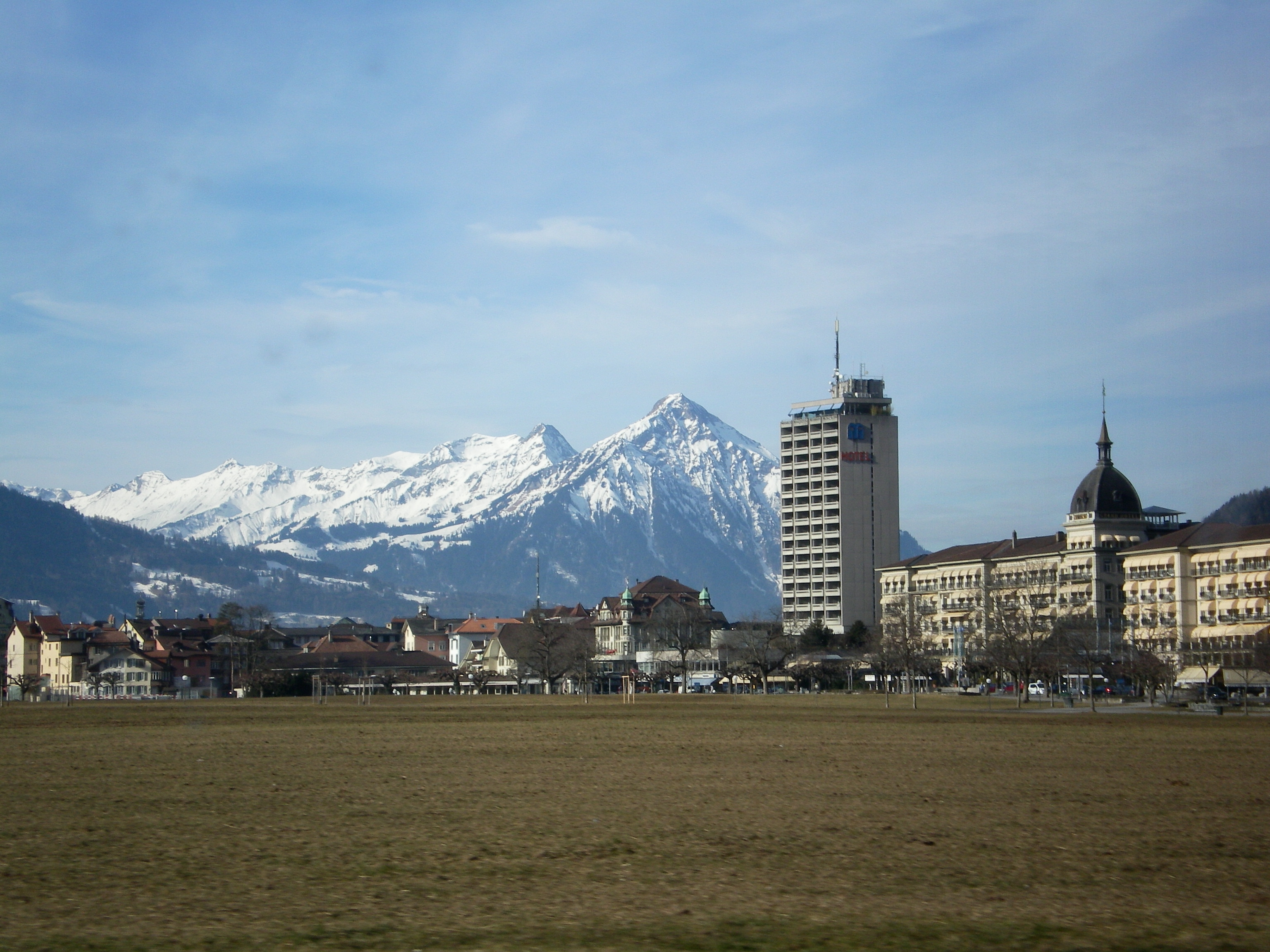 Interlaken